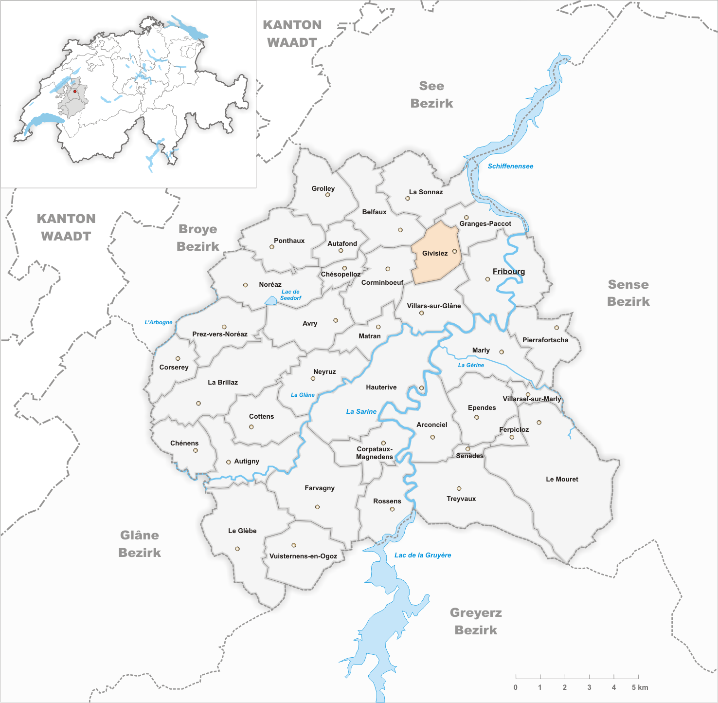 Municipality Givisiez